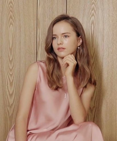 Kristina Pimenova in the “Be a Joelle” fashion film by88 Gymnastic heroes, Seoul, Korea